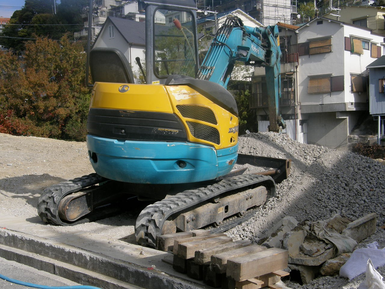 Bác Hồ